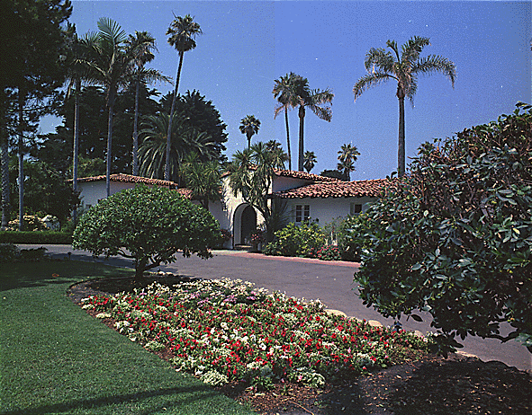 Exterior shot of the Richard Nixon house (La Casa Pacifica) in San Clemente, California.